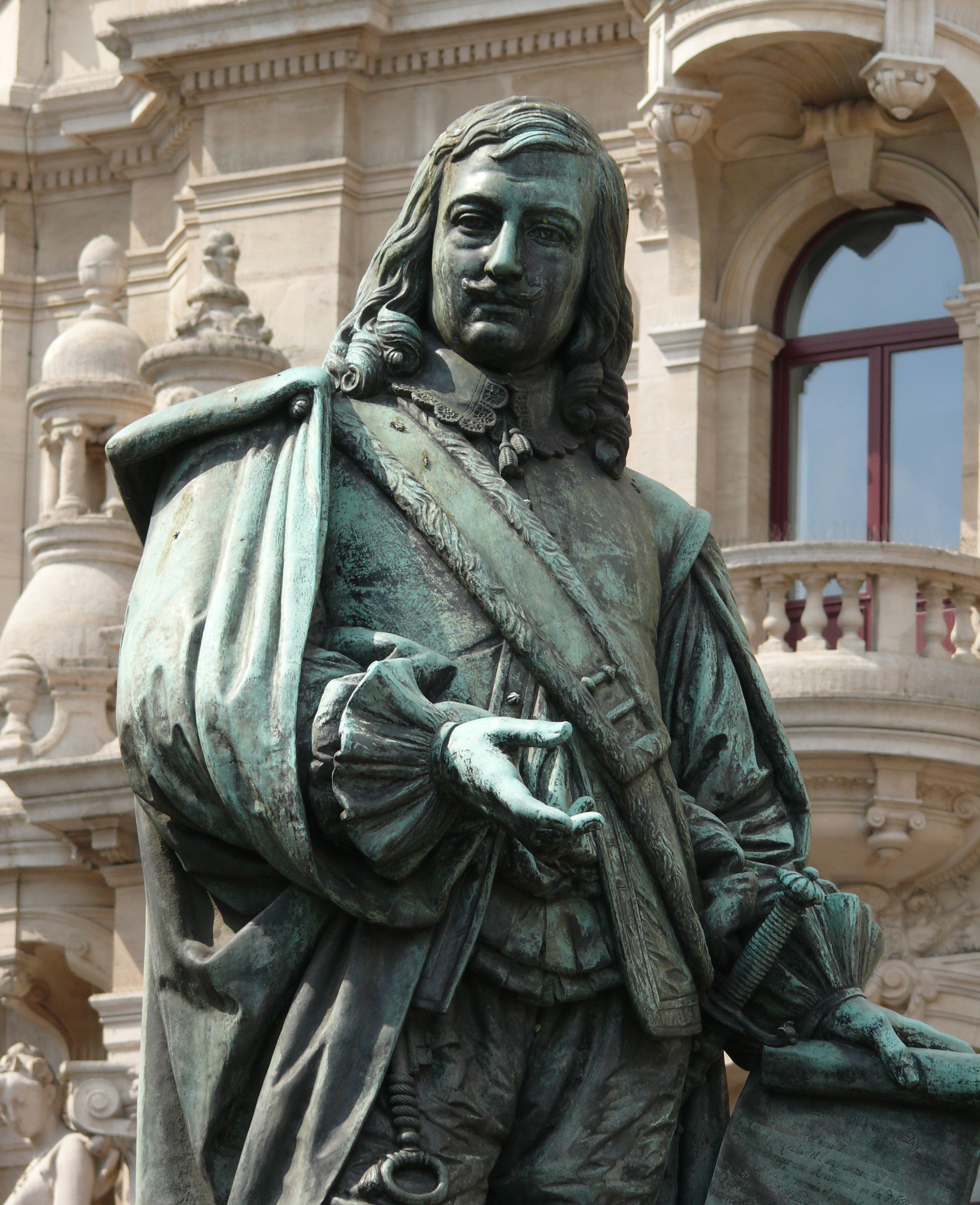 Statue of David Teniers (II) at the Teniersplaats in Antwerp, by F. Ducaju (ca. 1865). The statue was cast at the Cie des bronzes in Brussels.